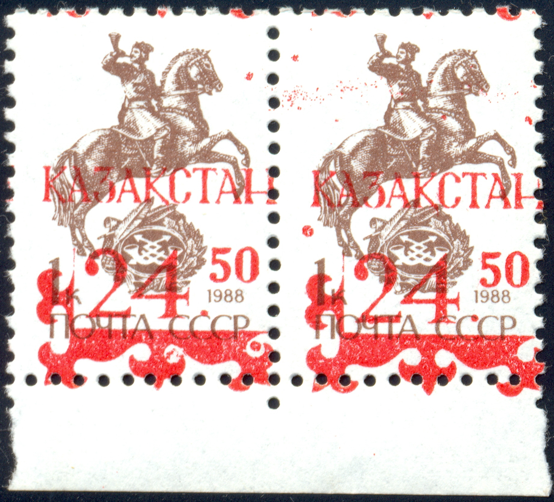 Kazakhstan's type 3 red overprint on USSR stamp No. 6145, November 1992, 24.50 r. on 1 k., No. 16.